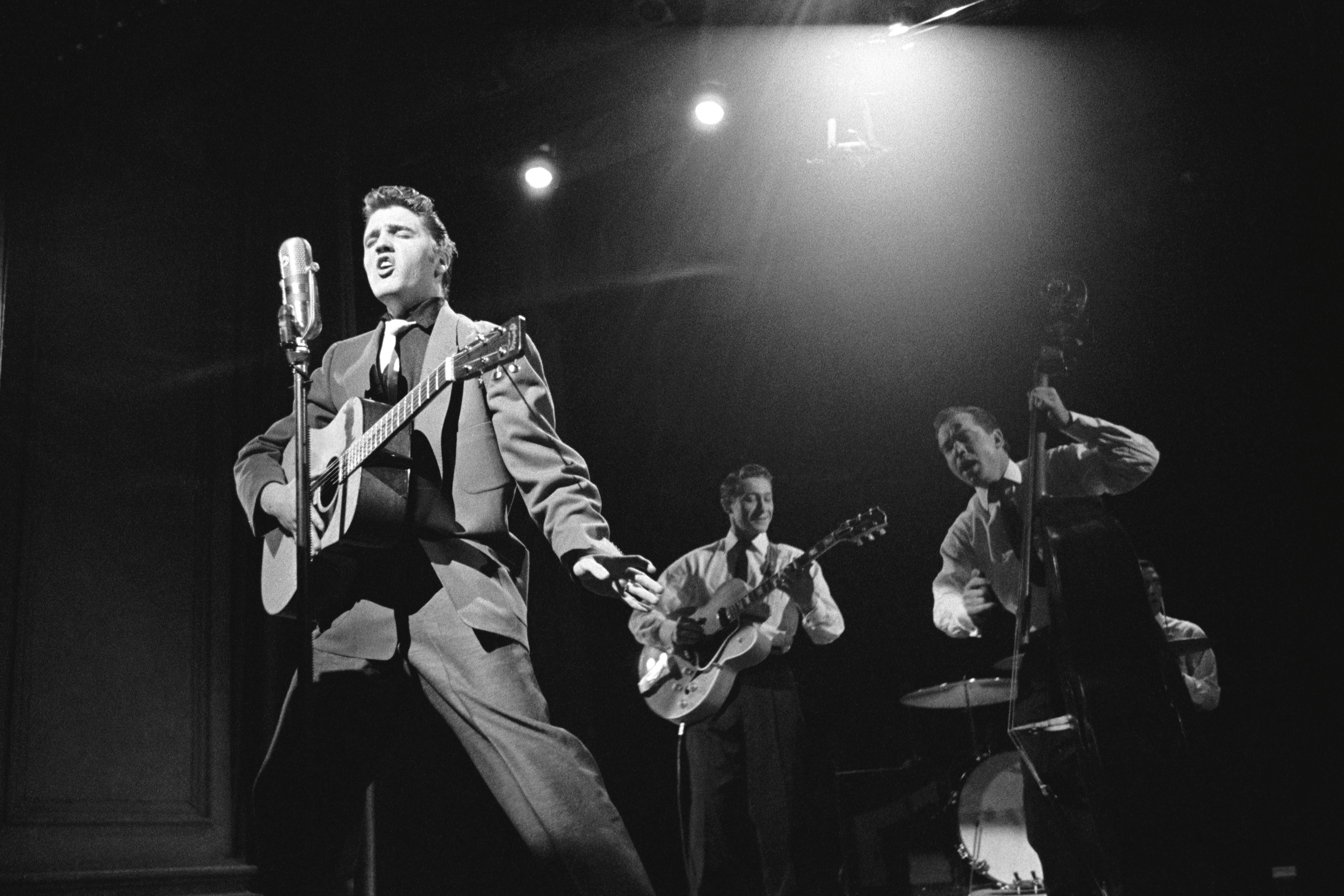 Elvis Presley live with Scotty Moore and Bill Black